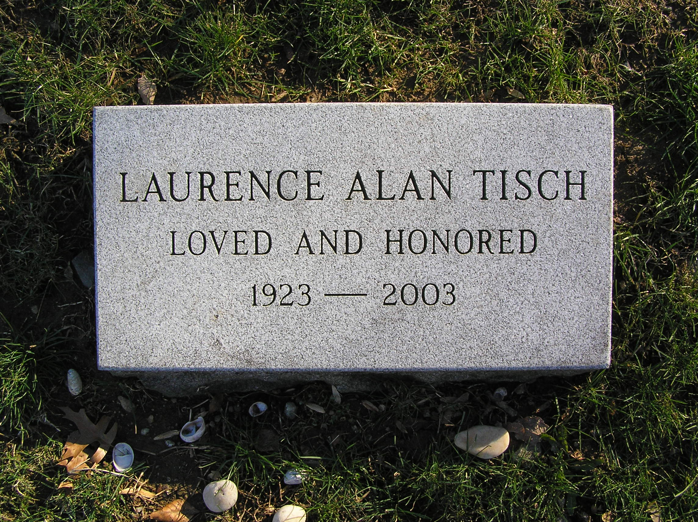 I took this photograph of Laurence Tisch's foot stone in Westchester Hills Cemetery. GNU Free Documentation License